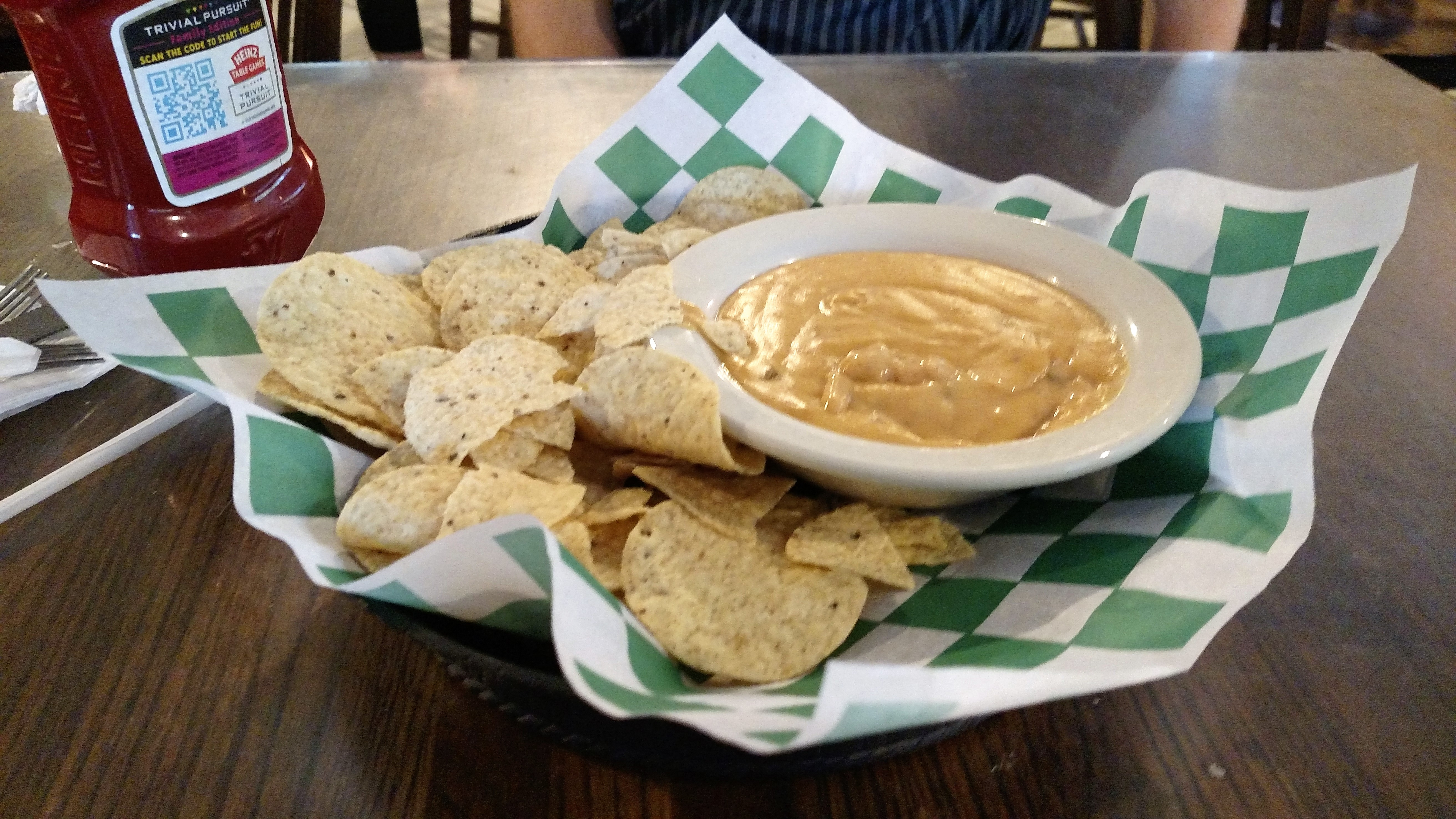 Stoby's Cheese Dip, an Arkansas classic cuisine